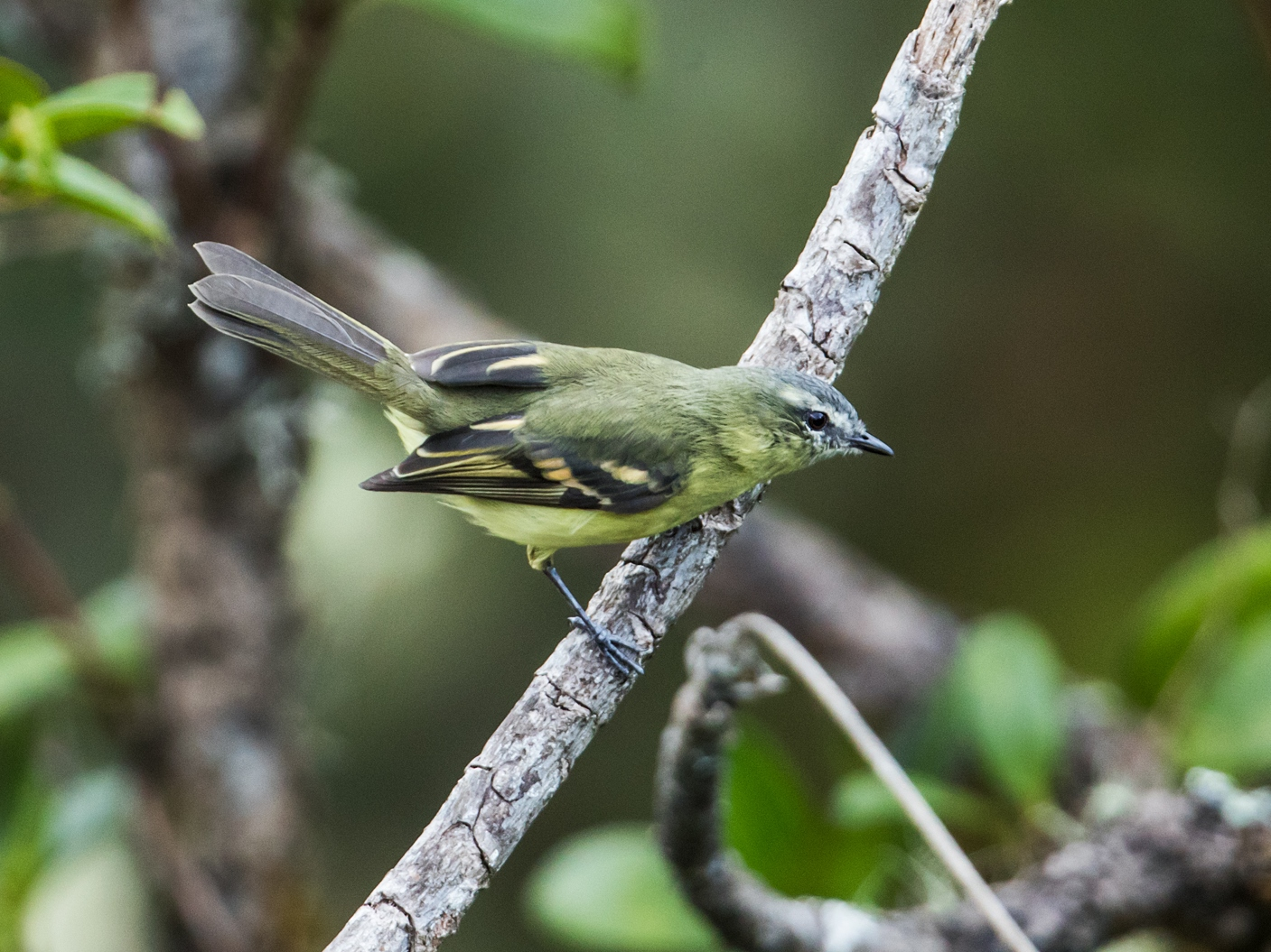 Sulphur-bellied Tyrannulet from Abra Patricia, San Martín, Peru